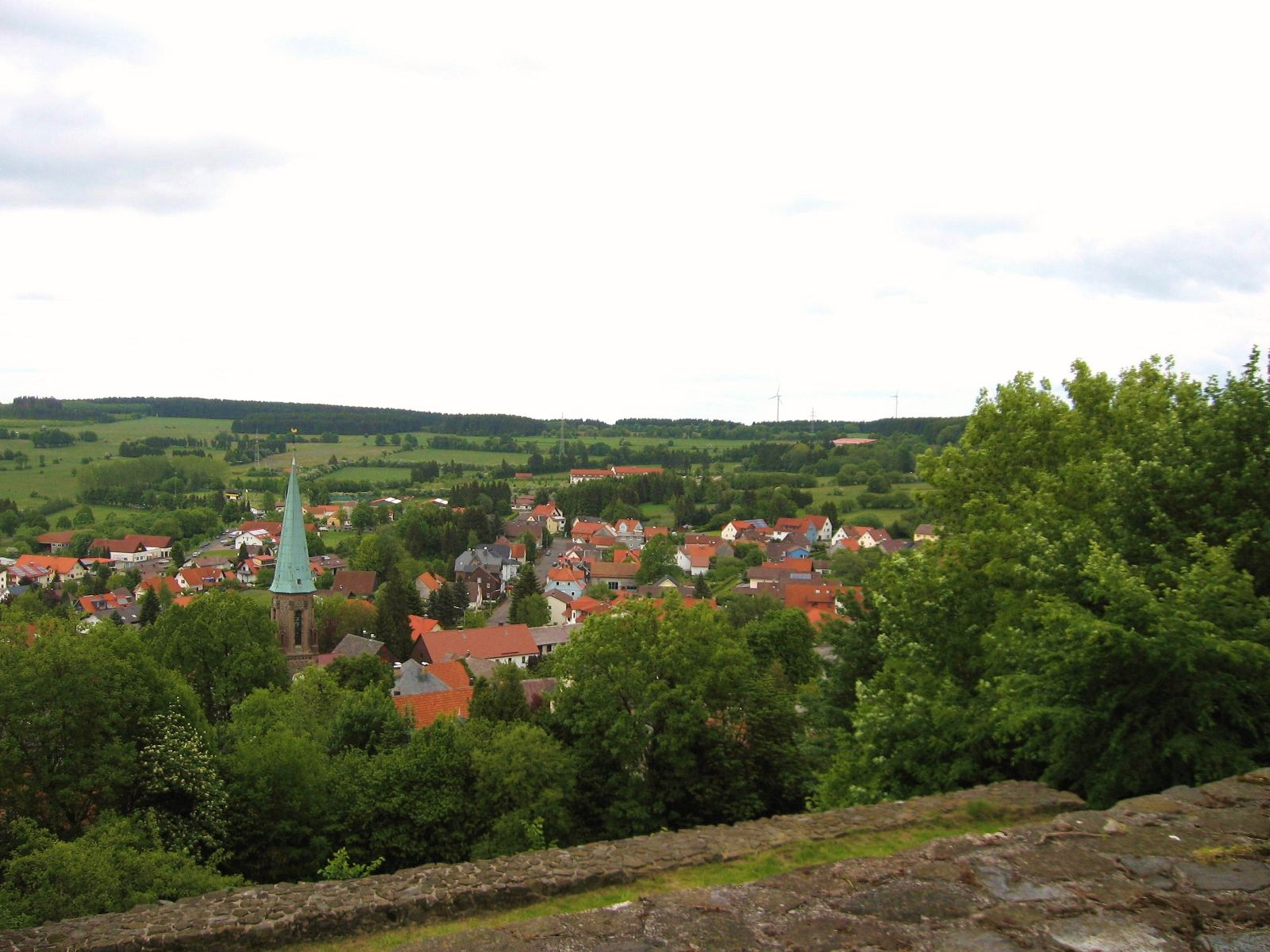 Germany / Hessen: view from the castle at Ulrichstein